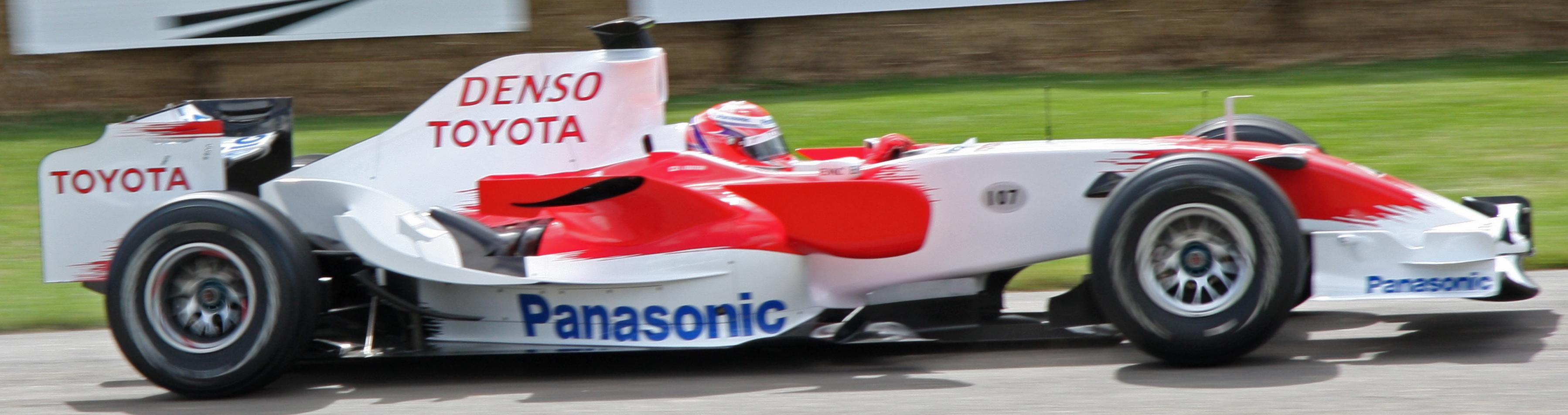 Kamui Kobayashi demonstrating the Toyota TF107 at the 2008 Goodwood Festival of Speed.